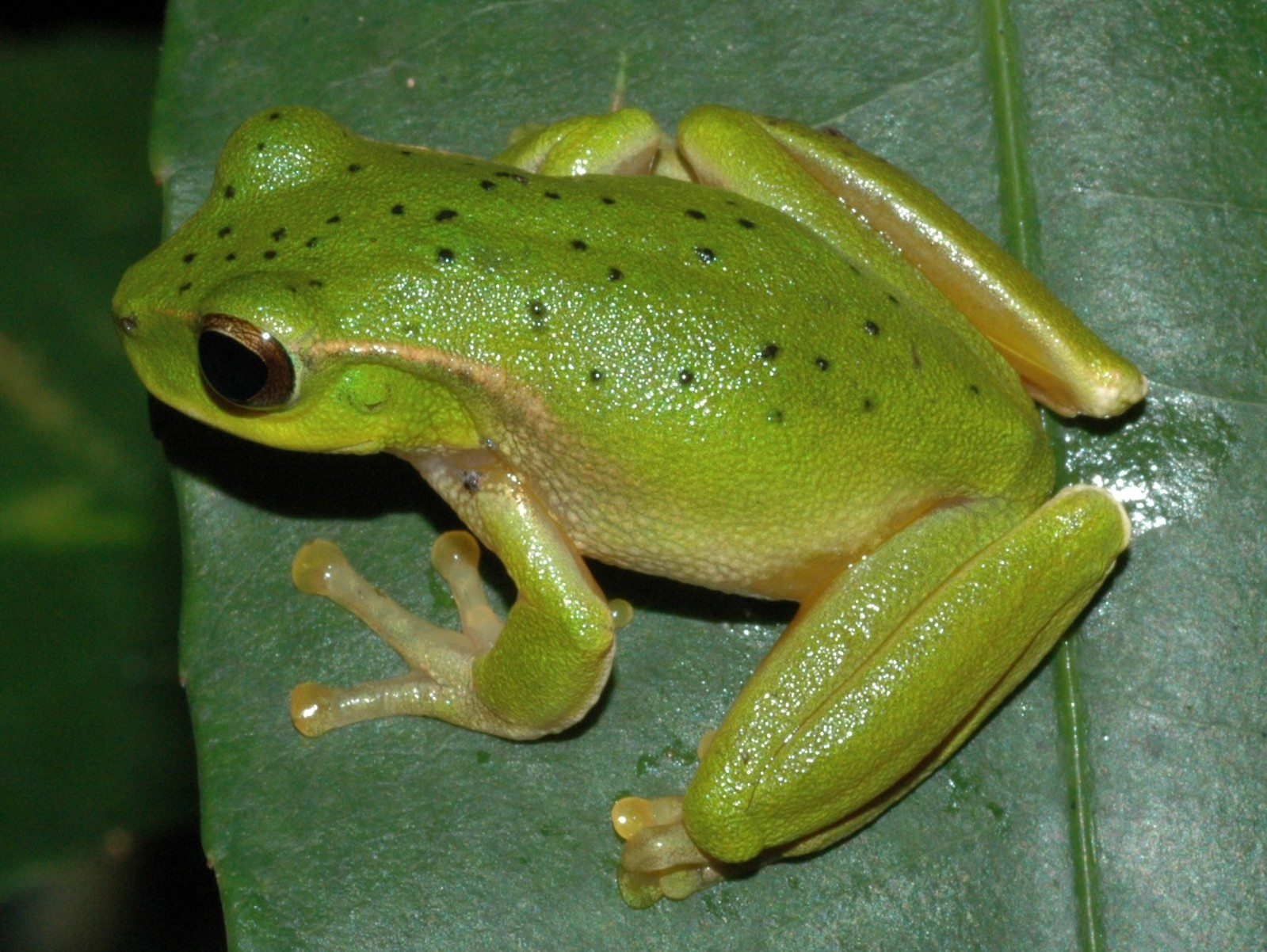 This Mountain Stream Tree Frog (Litoria barringtonensis) was found in Cascade National Park, NSW Australia.